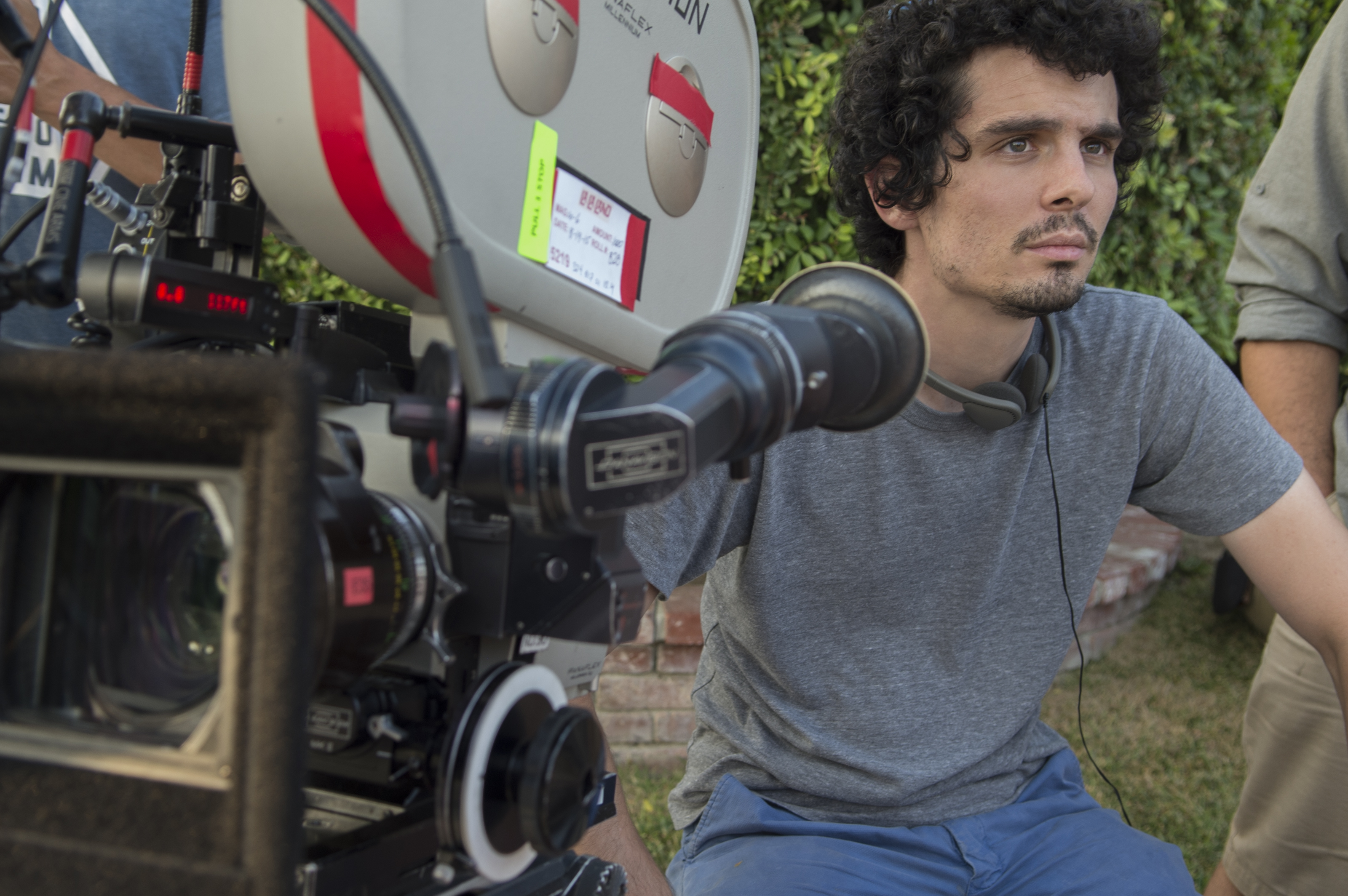 Damien Chazelle directing La La Land